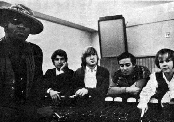 Photo of the group Rising Sons. From left-Taj Mahal, Jesse Lee Kincaid, Gary Marker, Ry Cooder and Keven Kelley.